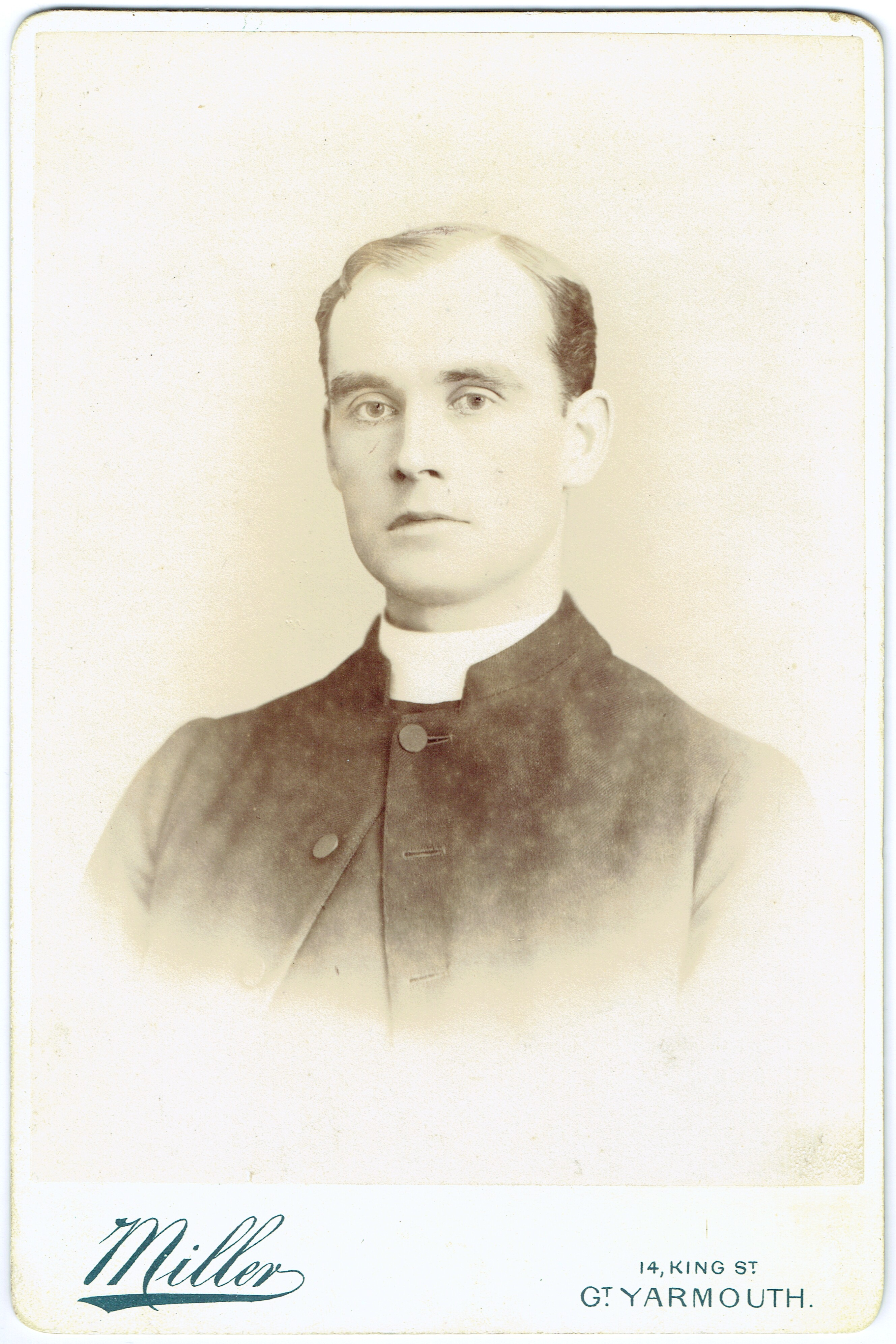 Photograph (head-and-shoulders vignette)